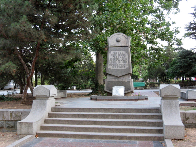 The place where Sevastopol was founded. Monument built in 1983, architects G.G.Kuzminsky, A.S.Gladkov.